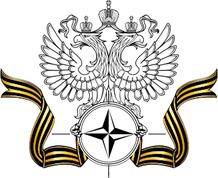 Russian /NATO flag